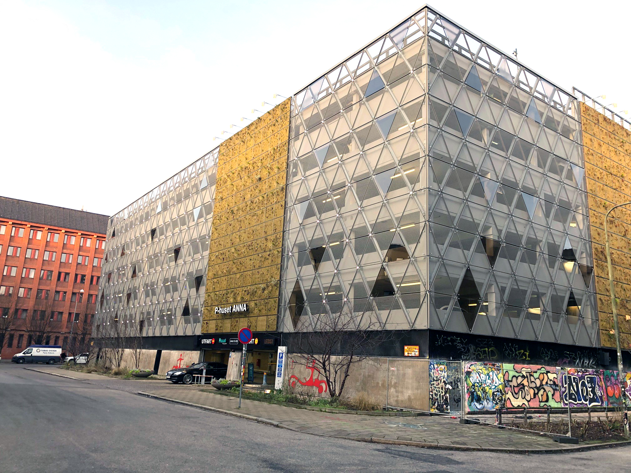 This depicts the car park 2019 after the recent renovation. The yellow area is a vertical garden that hasn't grown yet.